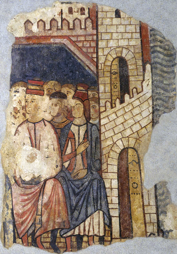 Corts de Barcelona